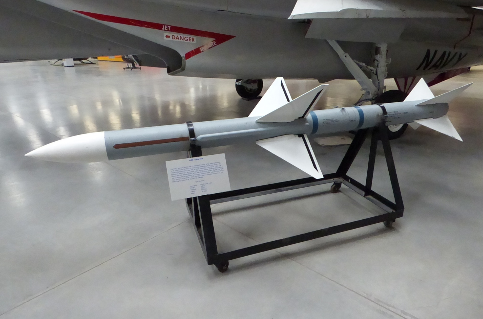 A AIM-7 Sparrow missile at the Pima Air & Space Museum, Tucson, Arizona (USA), in 2014.